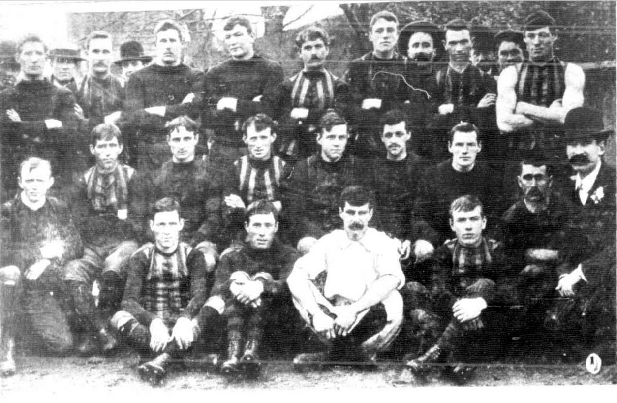 Team of Richmond FC, premiers